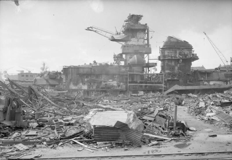 Royal Air Force Bomber Command, 1942-1945. The German heavy cruiser ADMIRAL HIPPER, scuttled in her dry dock at Kiel, after being badly damaged while undergoing a refit there by Avro Lancasters of Nos 1 and 3 Groups on the night of 9/10 April 1945.